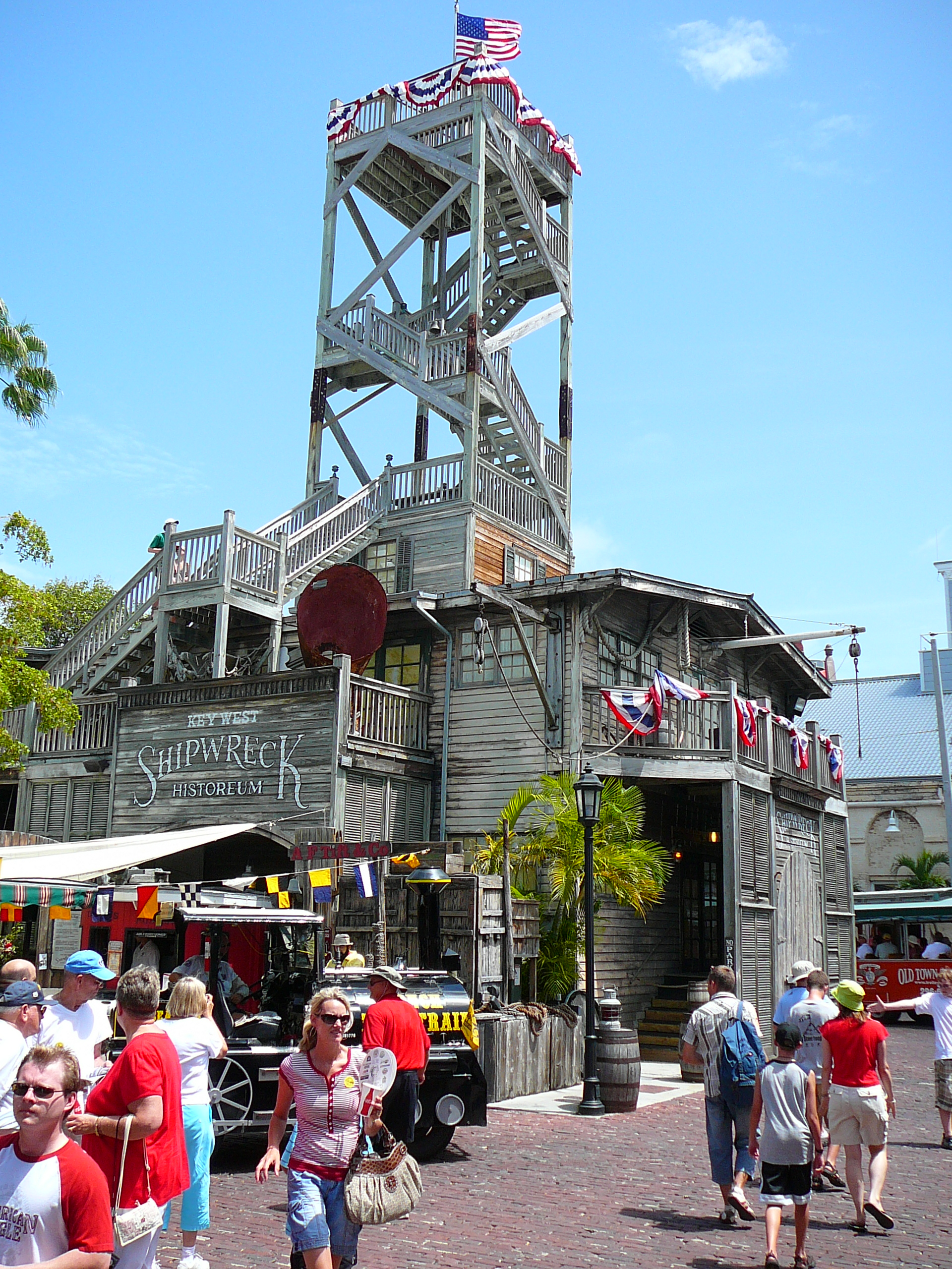 Digital photo taken by Marc Averette. The Key West Shipwreck Historeum Museum in downtown Key West, Florida